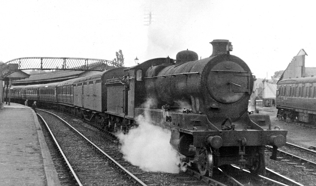 Forres Station, with an old Highland Railway locomotive on an express to Inverness. View eastward, towards Elgin and Aberdeen: an Aberdeen to Inverness express is leaving, headed by an ex-Highland 'Clan Goods' 4-6-0 No. 17956 - perhaps unusually, for even in those days the Stanier 'Black Fives' were predominant. This was a triangular station, with platforms on the lines south to Aviemore via Dava (closed 18/10/65) as well as the Elgin - Inverness lines.